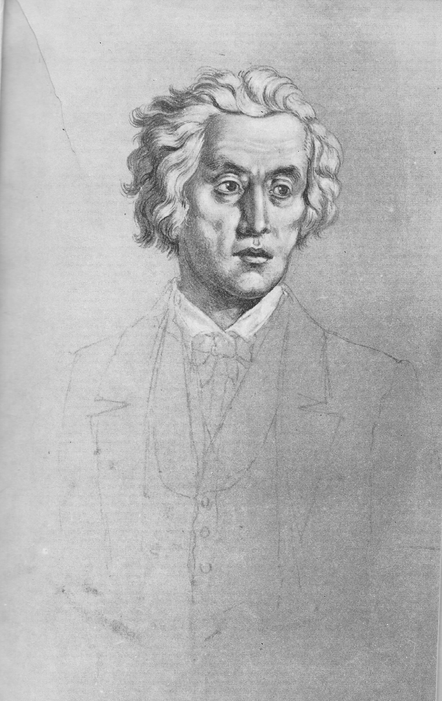 Franz Seraph Ritter von Kurz zu Thurn und Goldenstein: France Prešeren, risba, ojačana z belo tempero na papirju, 24 x 31 cm. Naslikano med 24. 3. in 12. 6. 1838 po naročilu Emila Korytka za zbirko Slovenske pesmi kranjskiga naroda. Marko Marin: O pristnosti portretov Franceta Prešerna. Ljubljana: AGRFTV, 1969, 25-26.